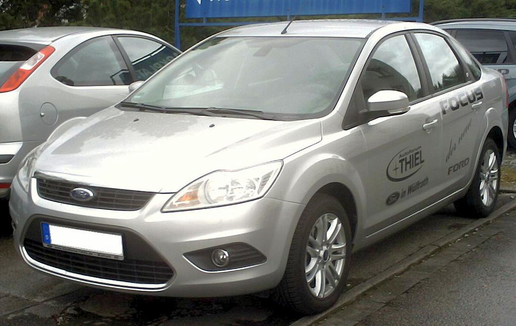 Ford Focus Limousine